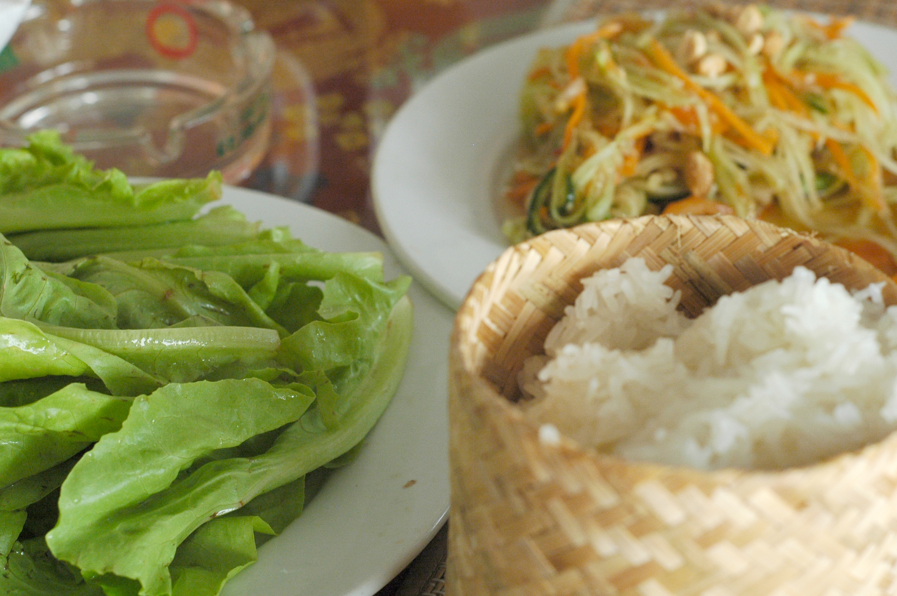 Sticky rice in tip khao container, papaya salad (tam mak khung) and lettuce leaves for wrapping. Taken at Dok Champa Restaurant, Vientiane, Laos.